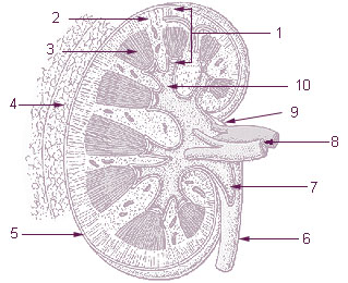 Picture of kidney